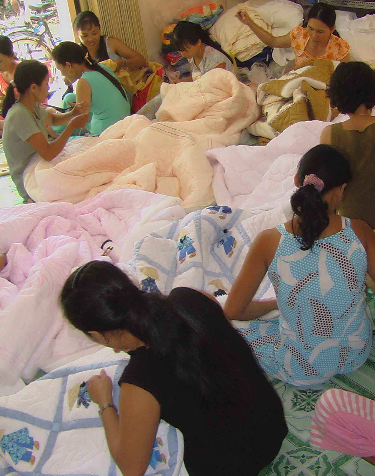 quilters group in Vietnam, Mekong-Quilts project